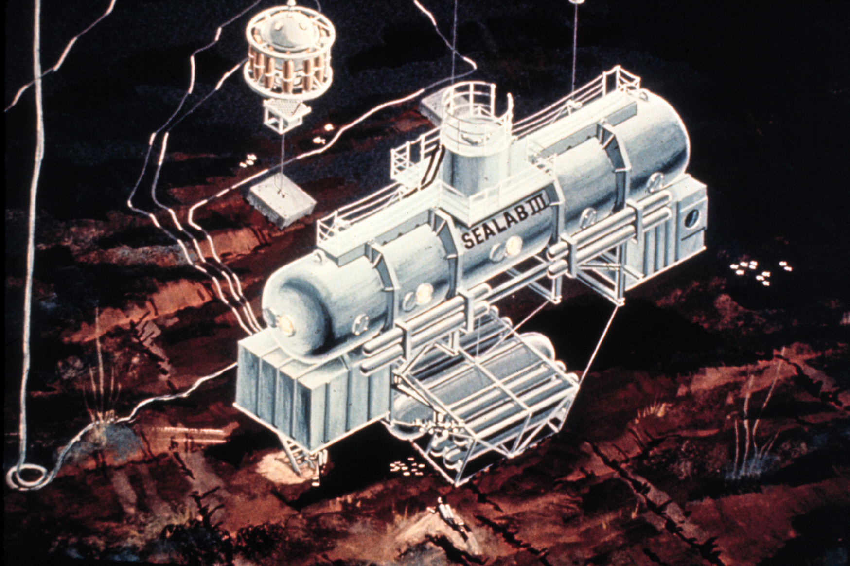 SEALAB III, last of the Navy's undersea habitats.